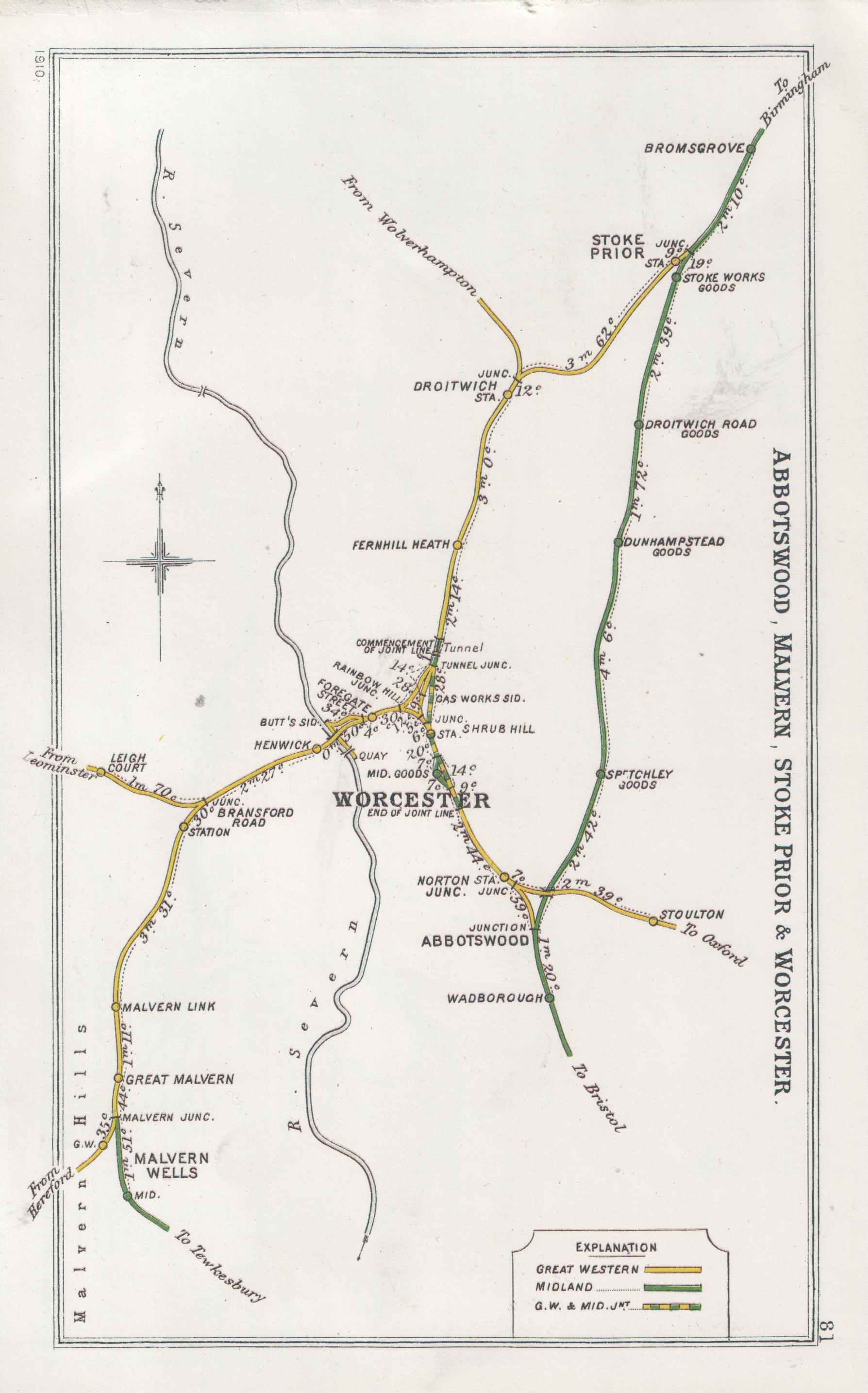 Pre Grouping railway junction around Abbotswood, Malvern, Stoke Prior & Worcester